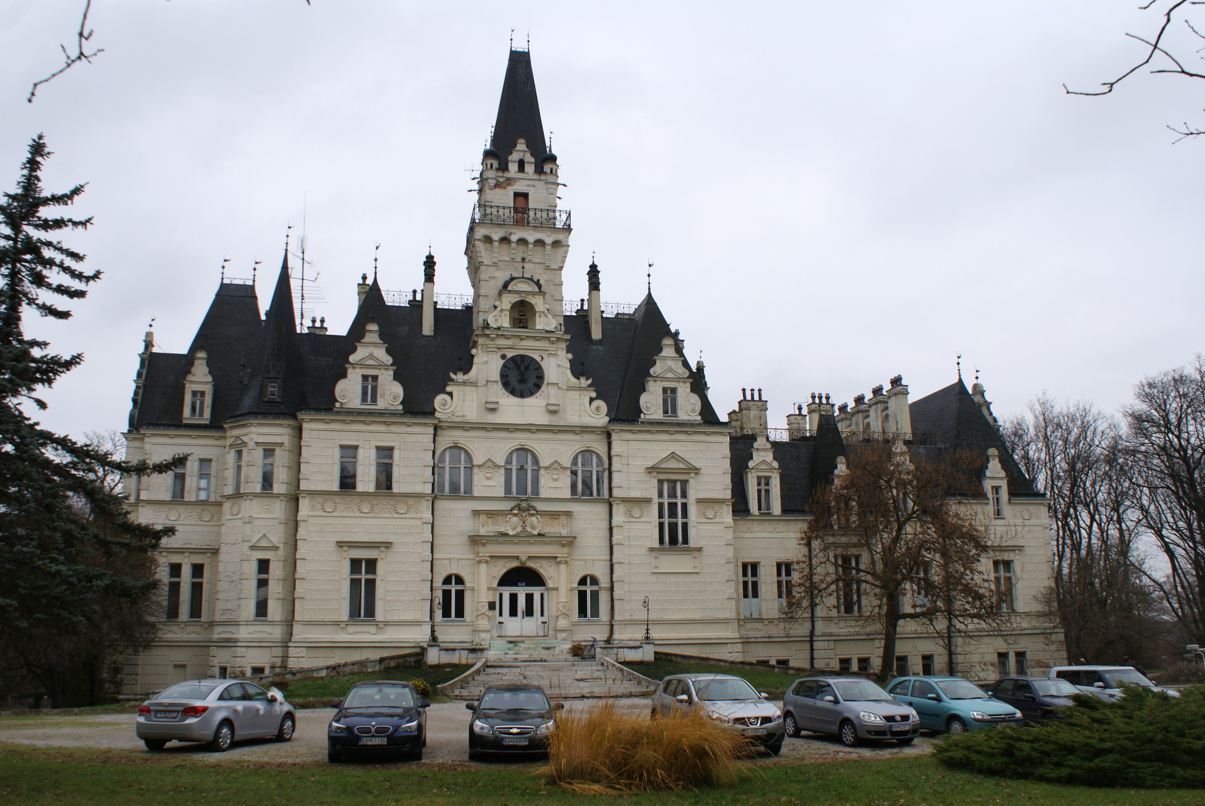 Budmerice, Slovakia, castle, front view